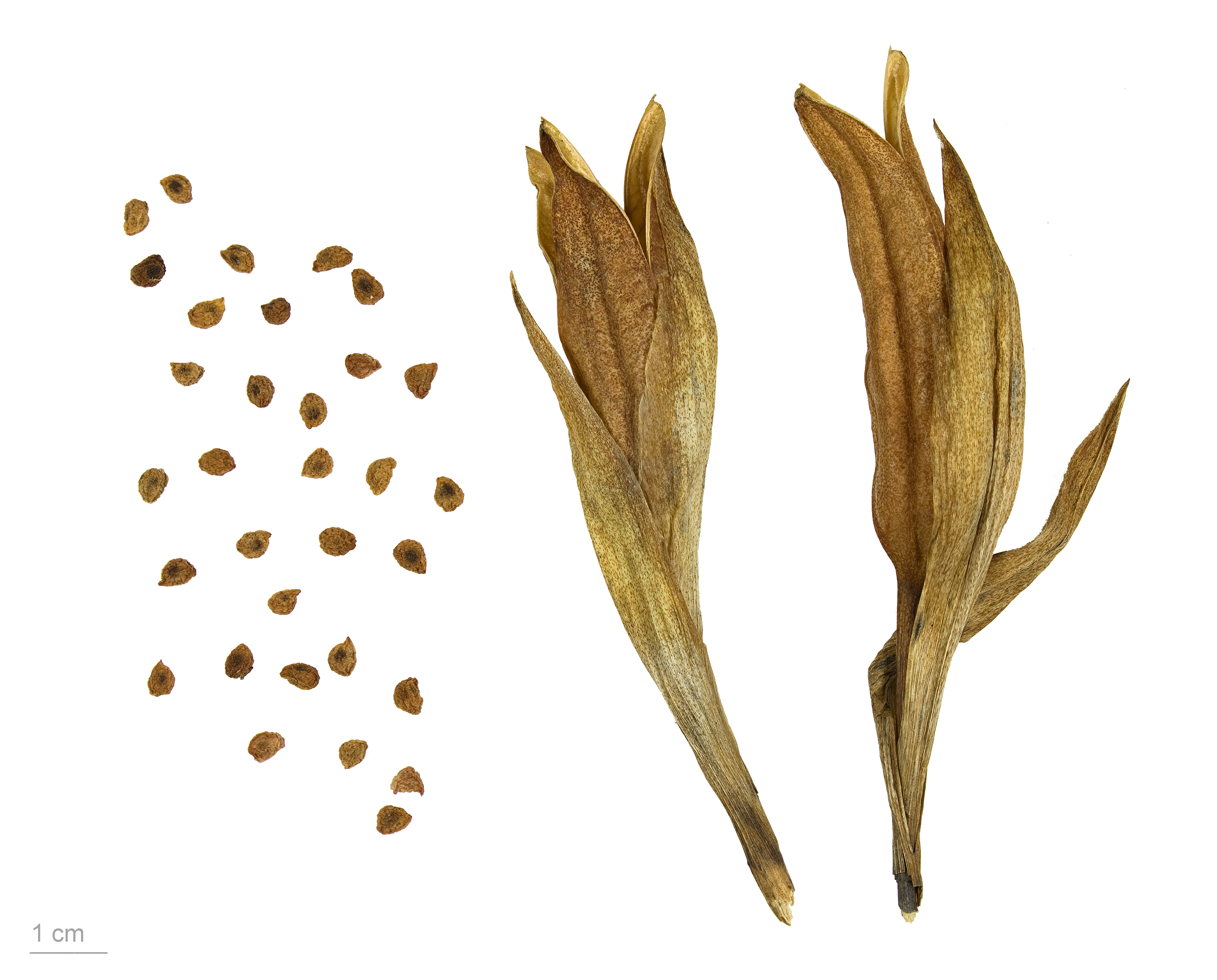 English iris , fruits and seeds